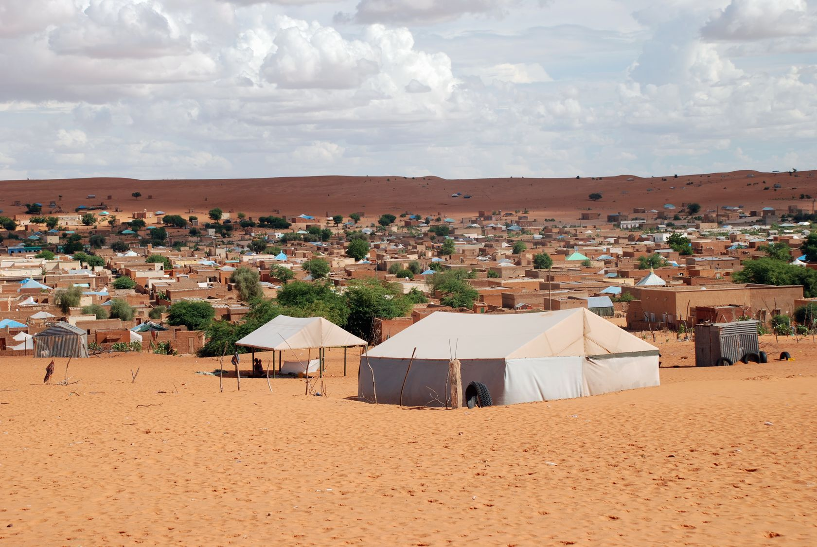 Boutilimit, Mauritania